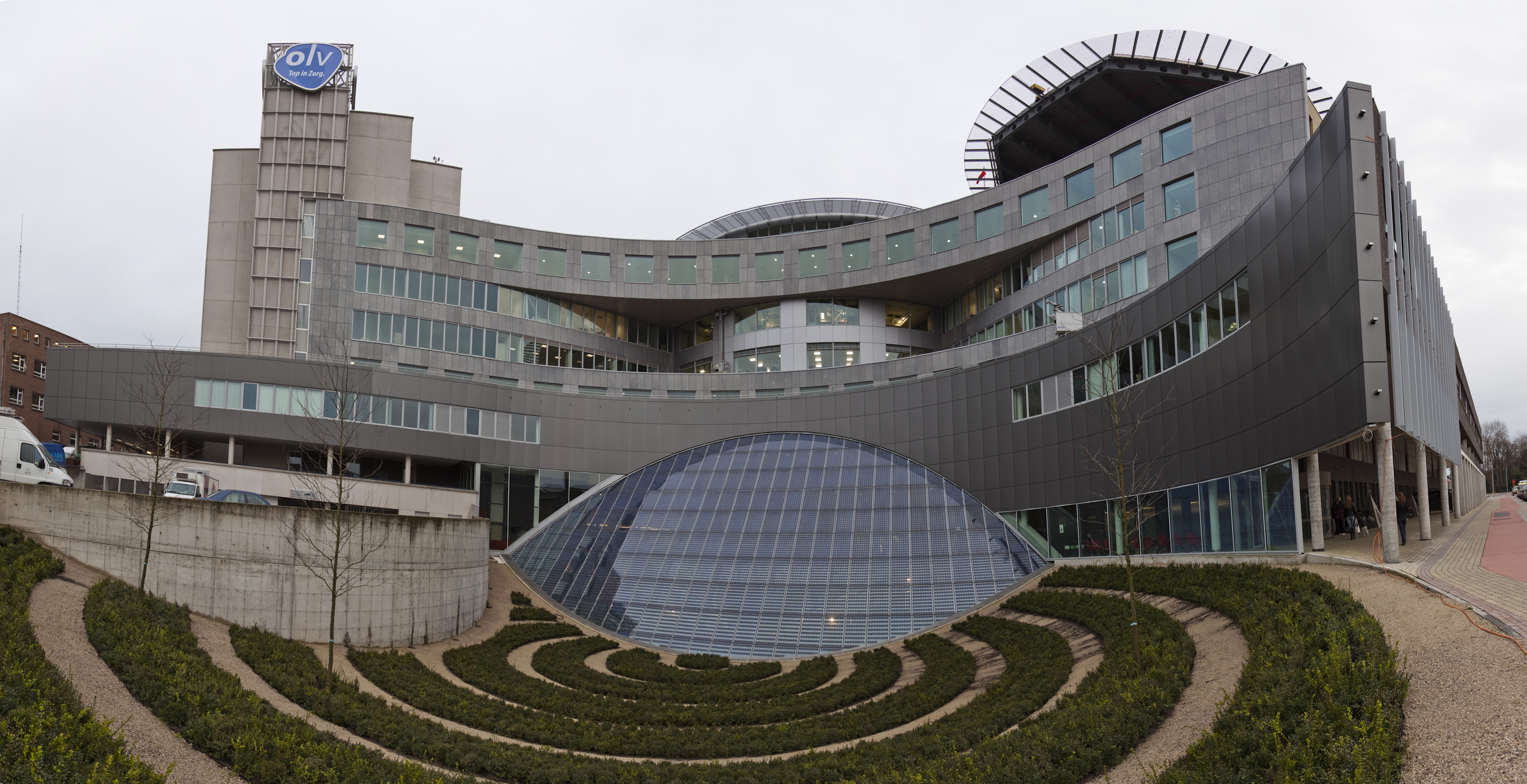 Front view of the Our Lady Hospital section Aalst (including the garden).